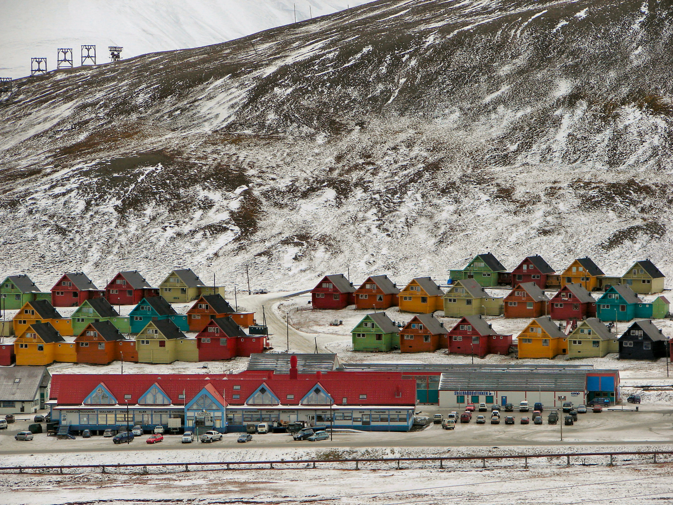 The town centre of Longyearbyen, Svalbard, Norway. The colourful homes are a contrast against the bleak scenery. The large building at the bottom is the service centre of the town and the archipelago, with shops, banking and postal services available.